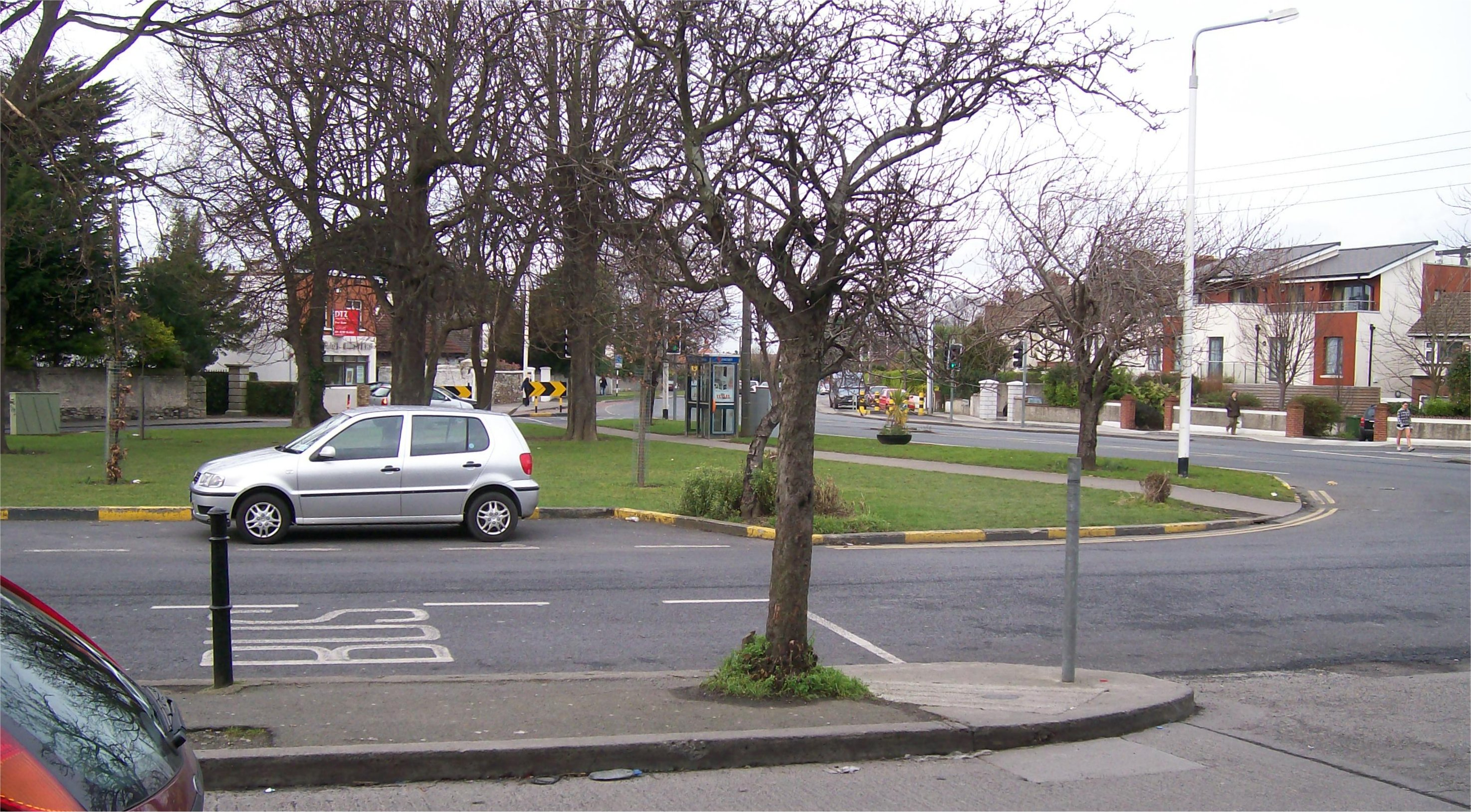 Editor's own photograph